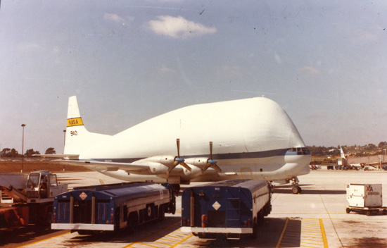 Catalog #: 00061865 Manufacturer: Boeing Designation: 377-SG Official Nickname: Super Guppy Notes: Model 201 Repository: San Diego Air and Space Museum Archive